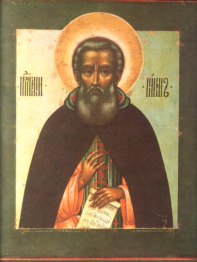 Saint Nikon of Radonej